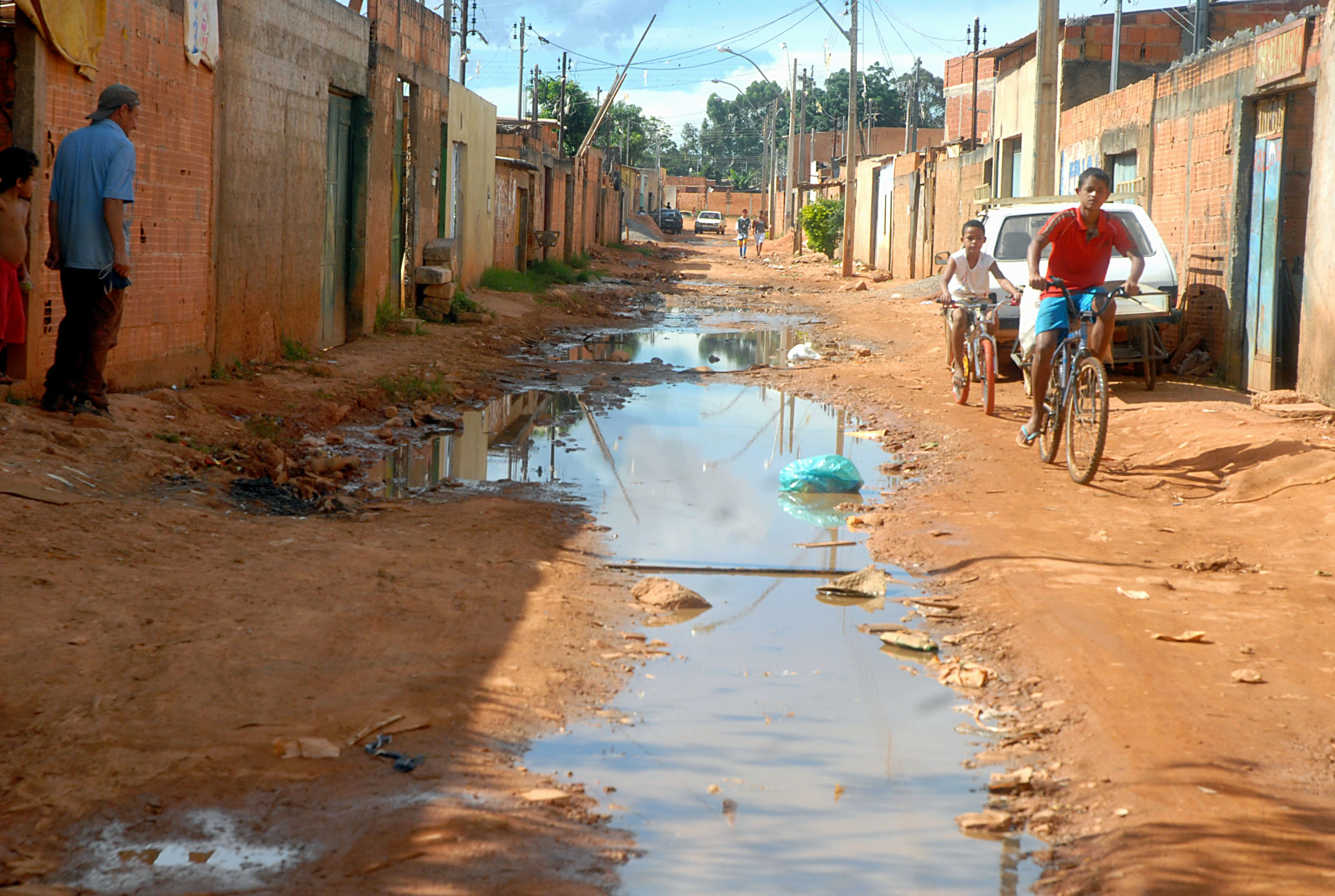 Open sewer in Cidade Estrutural, Federal District, Brazil.